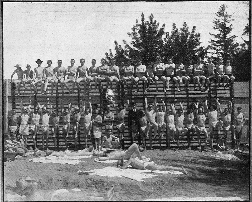 Sunbathing at the Battle Creek Sanitarium, from Kellogg, John Harvey. The Battle Creek Sanitarium System: History, Organization, Methods. Battle Creek, Mich: Gage Printing Co., 1908, p. 136